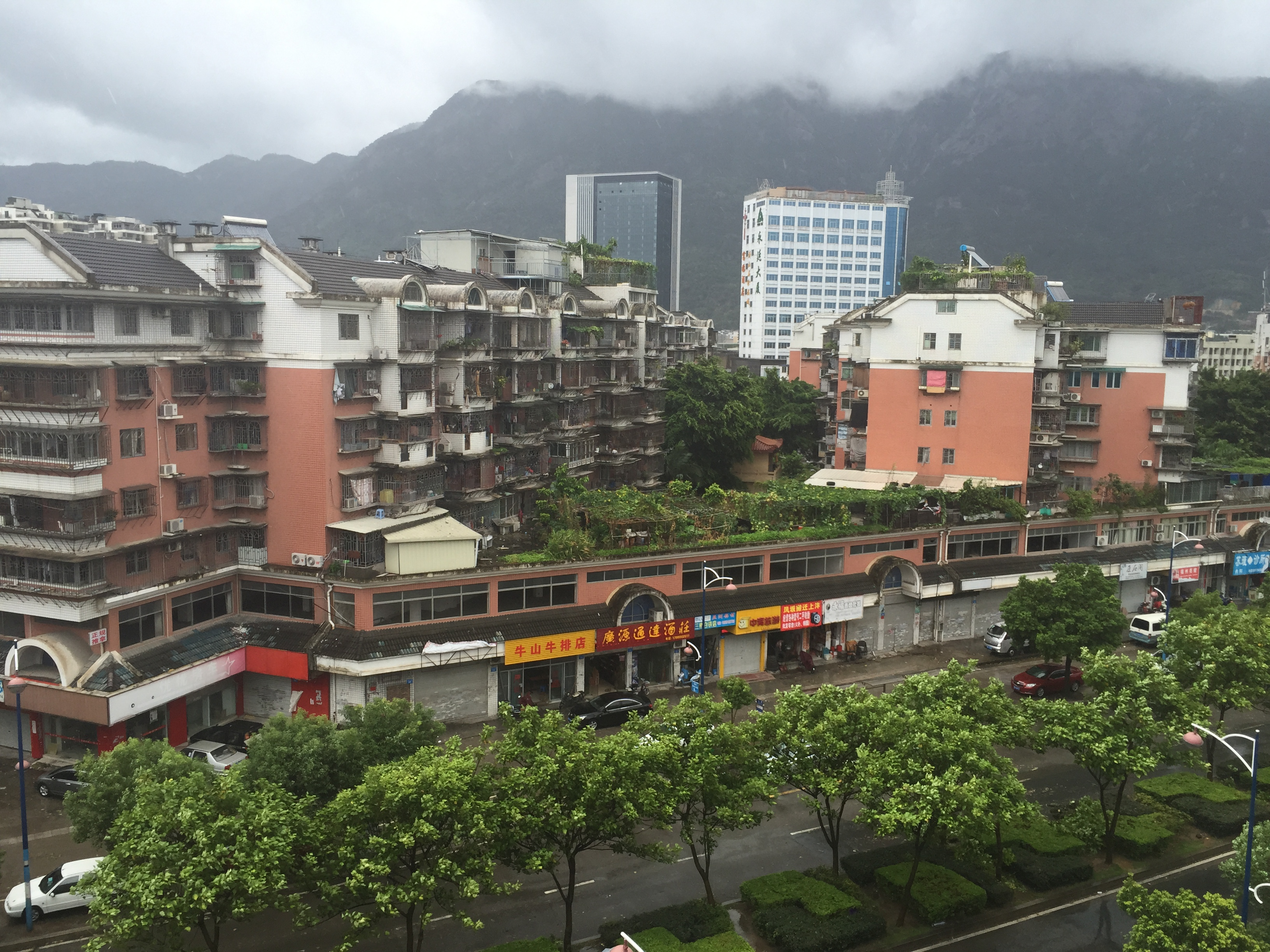 Just before the typhoon Soudelor struck Fuzhou.